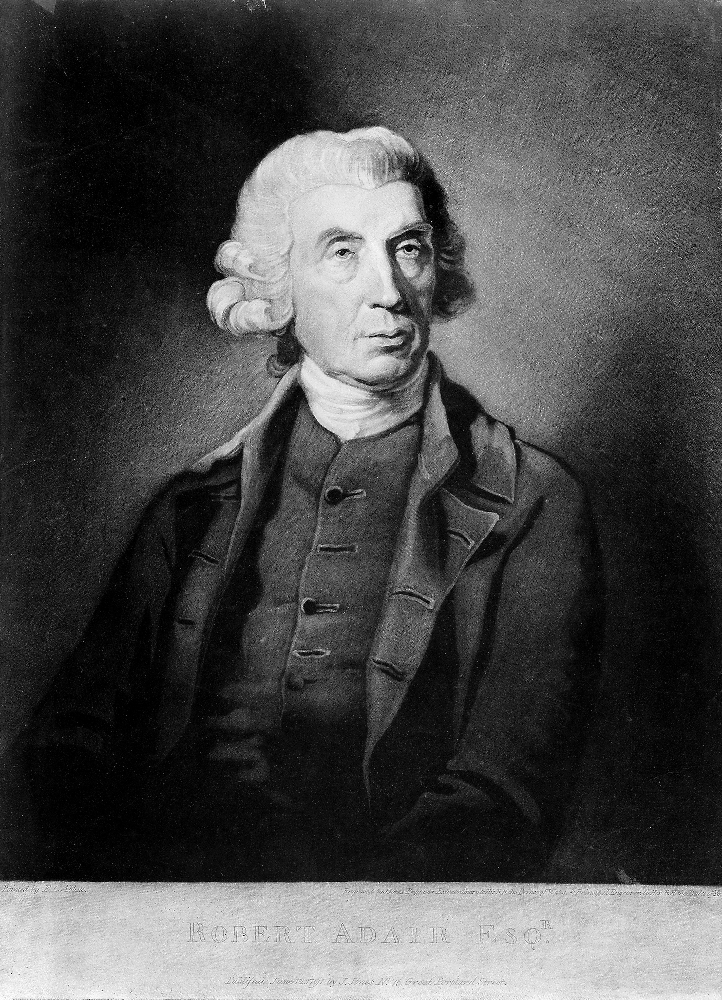 Portrait of Robert Adair. Wellcome Images Keywords: Jones; Adair, Robert; Abbot